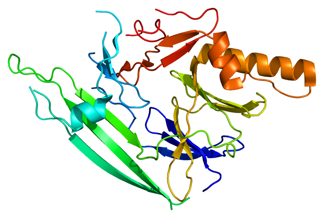 Structure of the ERN1 protein. Based on PyMOL rendering of PDB 2hz6.